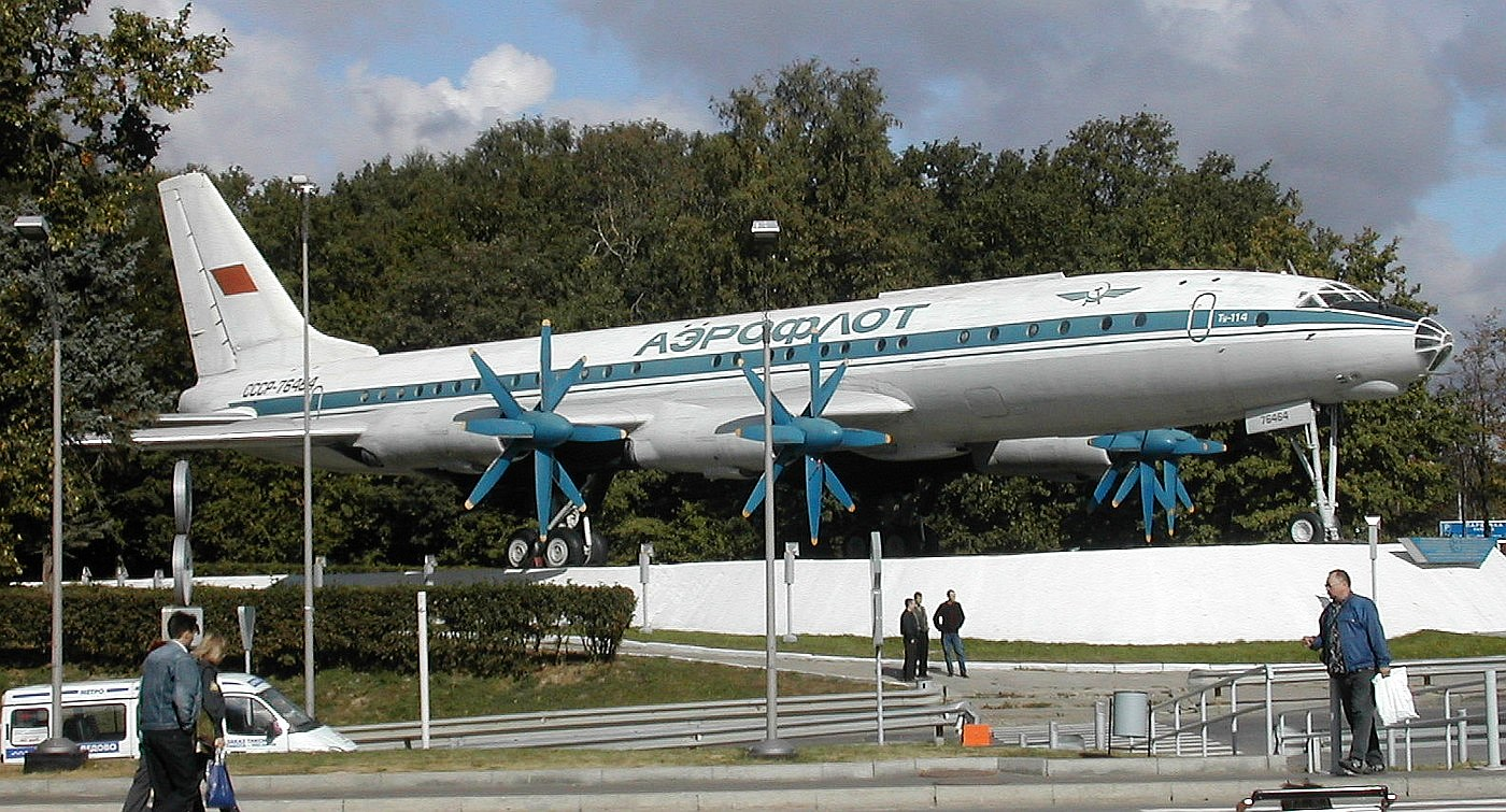 Tupolev-114 on display at Domodedovo Airport. This airplane was destroyed in 2006 to make way for more parking space.